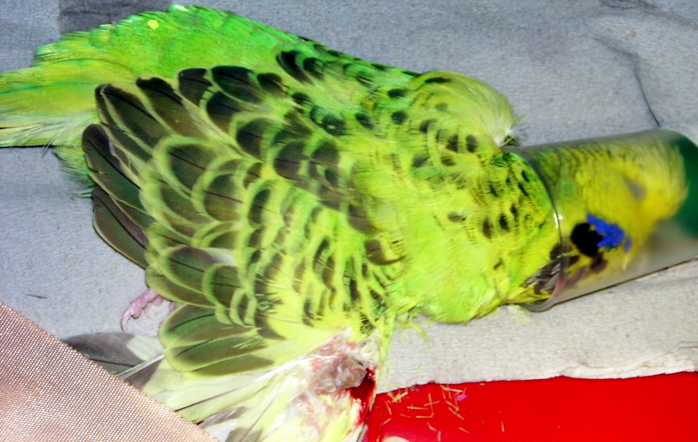 feather cyst at the right wing of a budgerigar